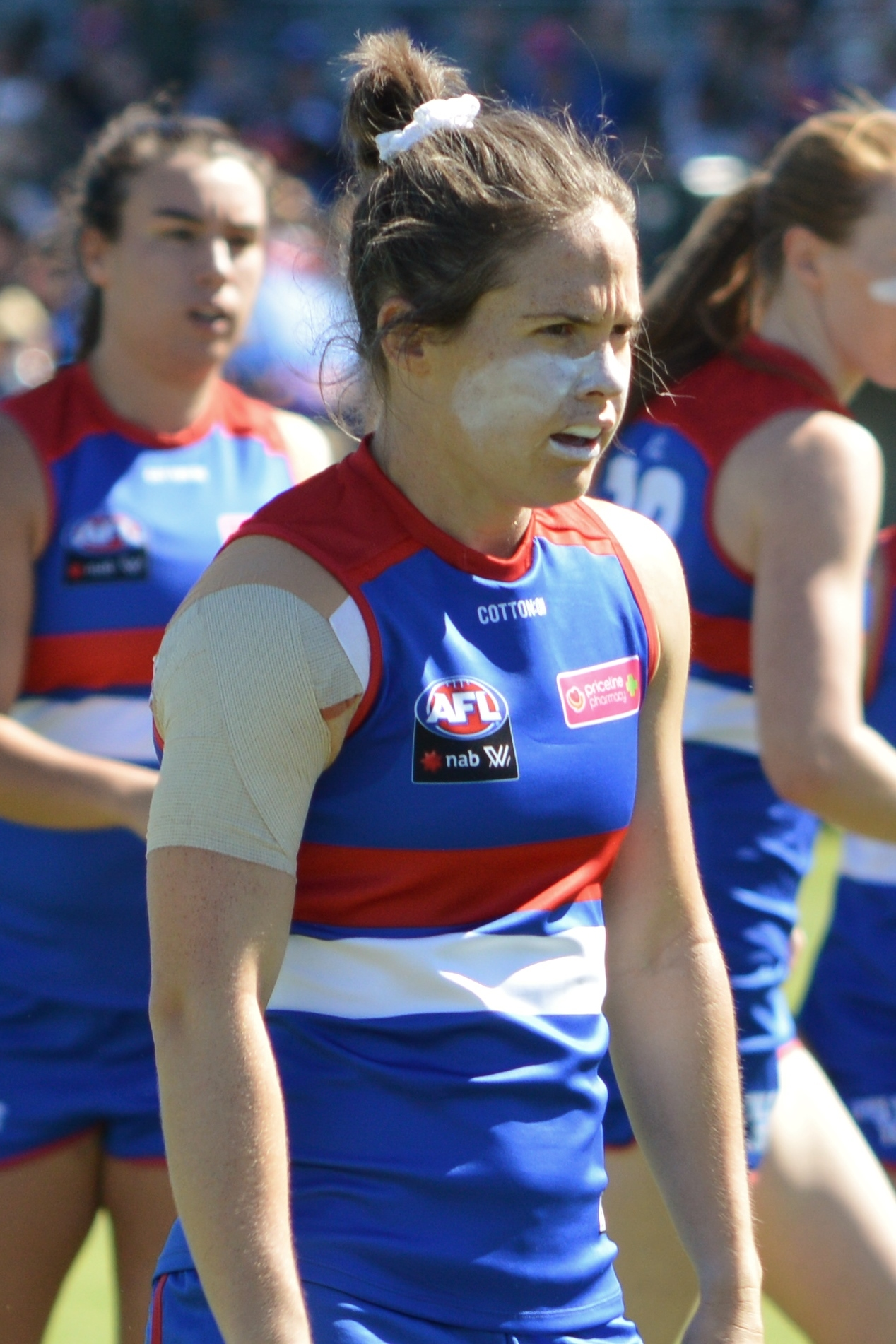 Emma Kearney during the round 1, 2018 AFL Women's match between the Western Bulldogs and Fremantle.